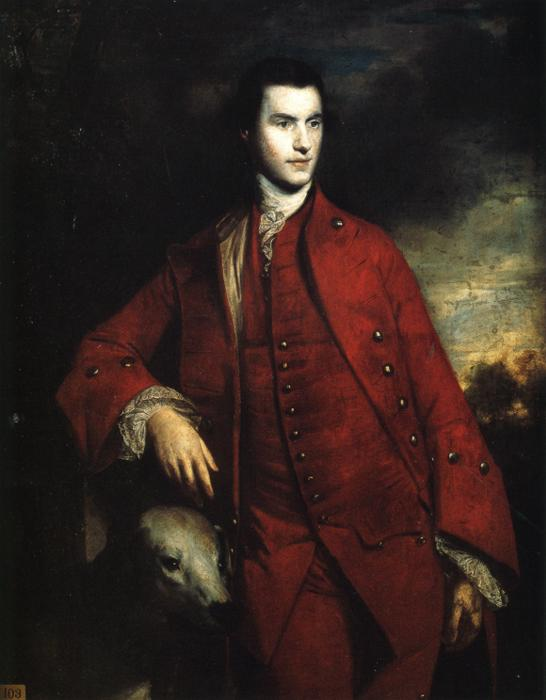 Charles Lennox, 3rd Duke of Richmond